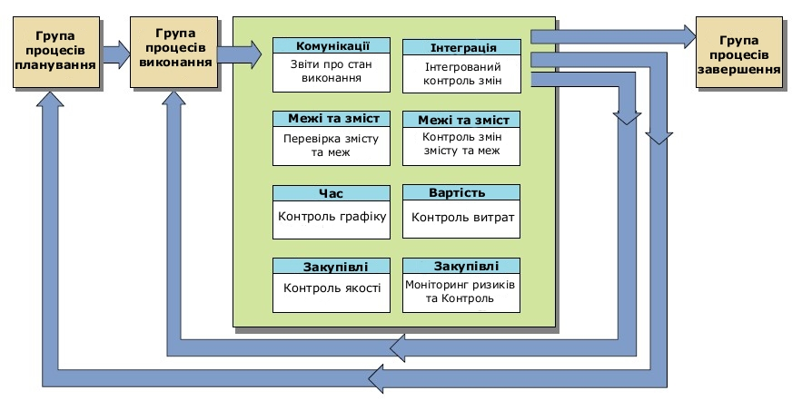 Monitoring and Controlling Process Group Processes